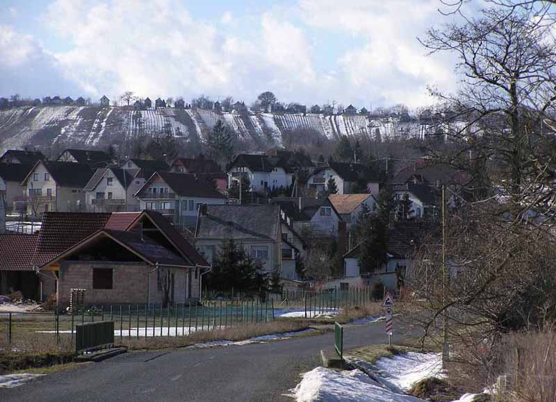 View of Bocfölde, a village in Western Hungary (pop. ~1046 in the year 2001) from the valley of Válicka, a brook entering the Zala river about 7 km North from the spot the photograph was taken. The village is situated in Zala county, settled on and between hills running in North-South direction, next to a secondary road (Hungarian Road system # 74, European # E65).